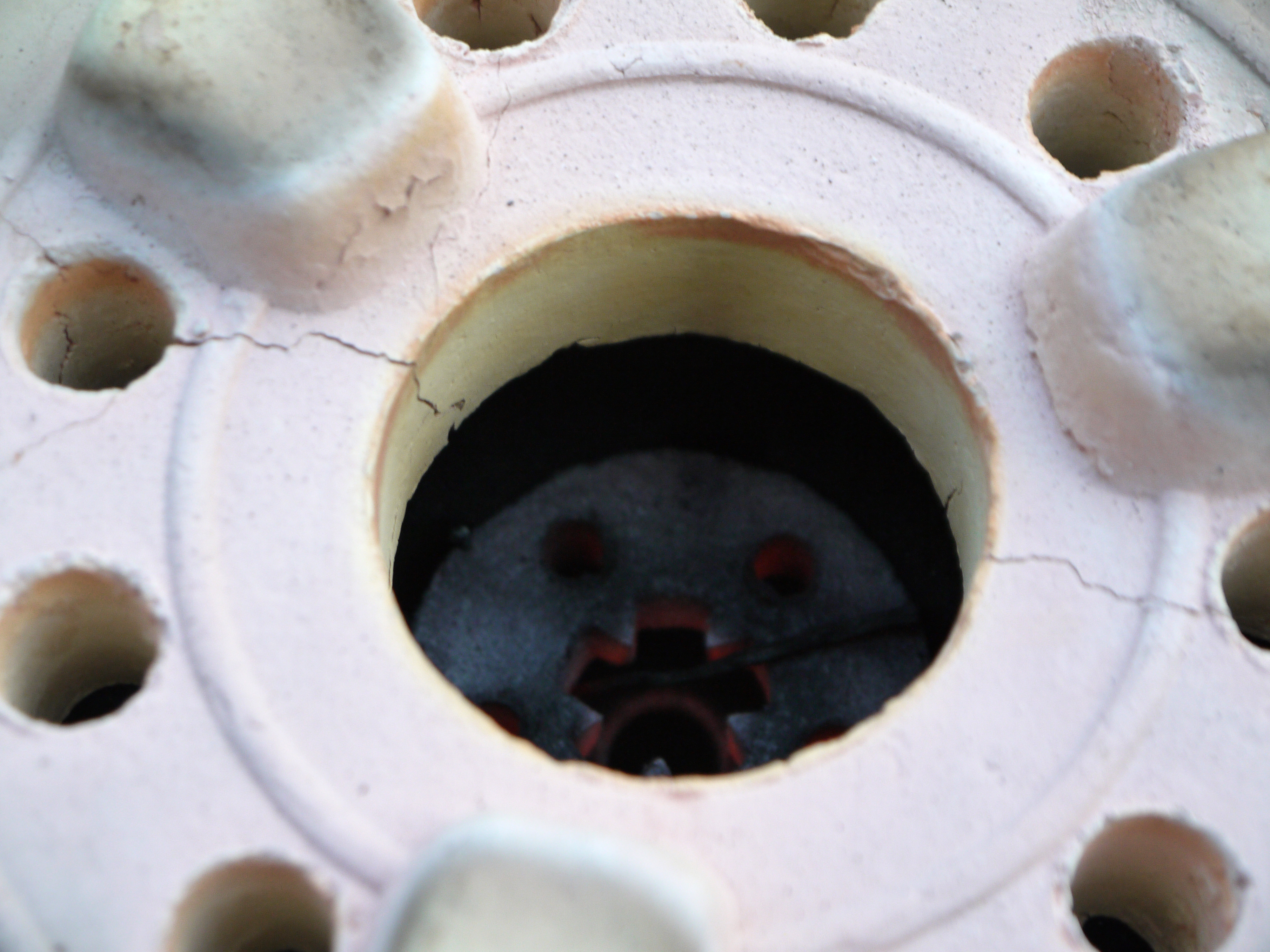 Japanese Rentan FireStrat